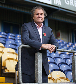 Photo of John Radford on the terraces at Field Mill football ground, Mansfield. Image requested in 2016 by Rocknrollmancer